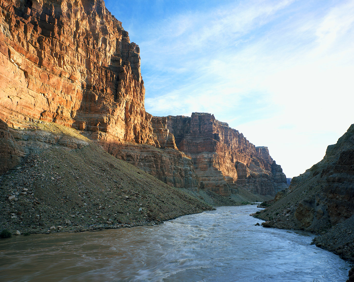 Cataract Canyon at Sunrise near the Big Drops